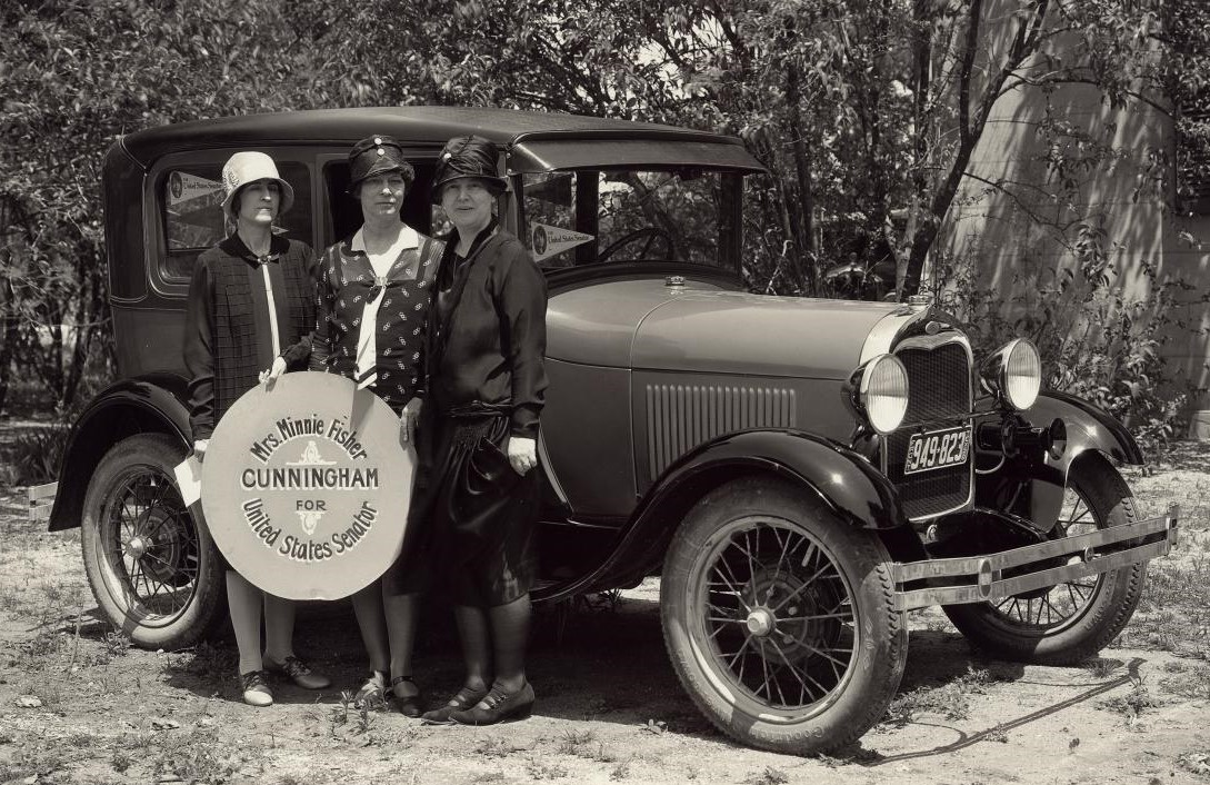 Minnie Fisher Cunningham, Texas suffragette. Campaign photo, 1928 election to represent the state of Texas in the United States Senate, the first woman in Texas to do so.